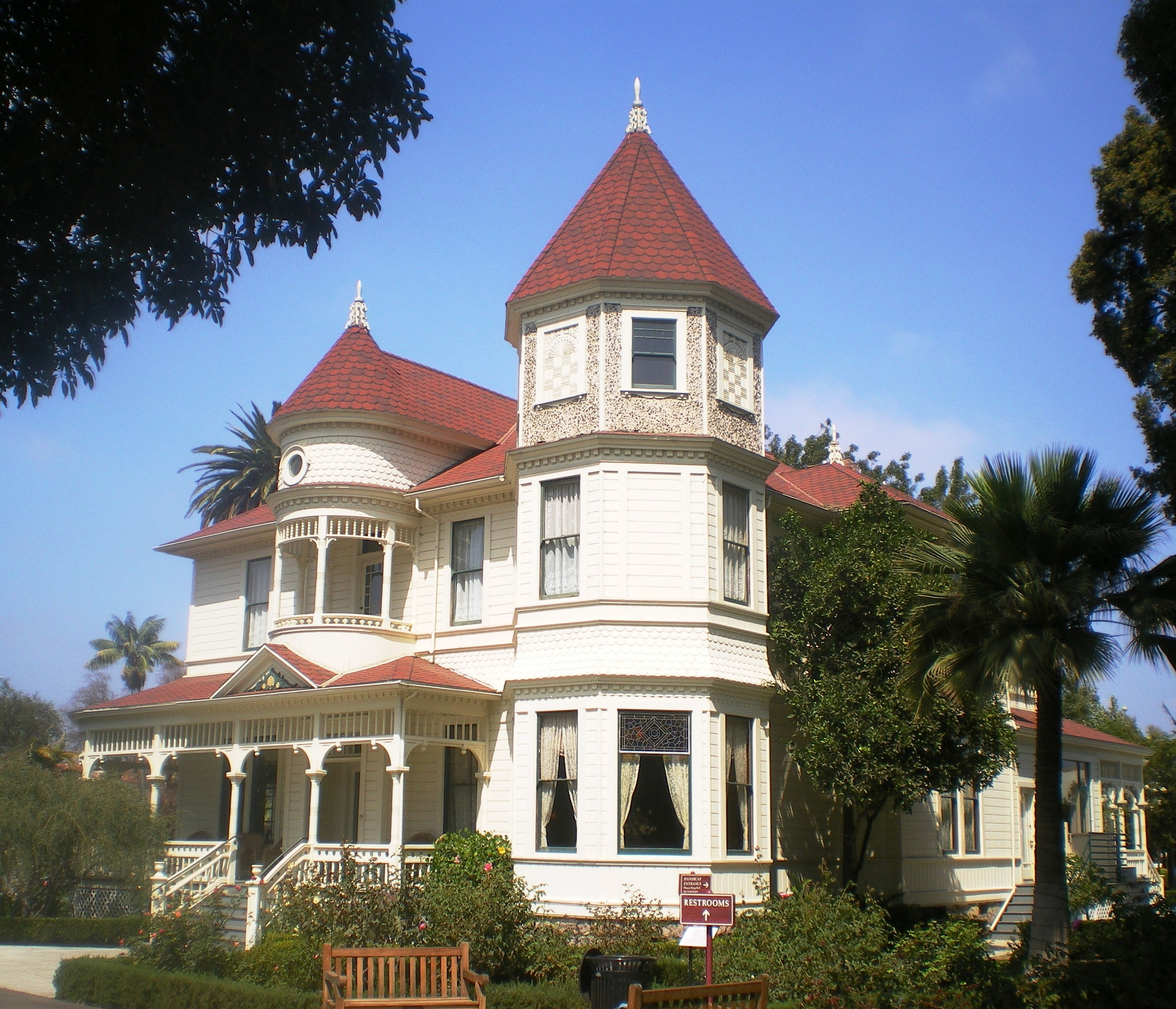 Camarillo Ranch House, 201 Camarillo Ranch Rd., Camarillo, California